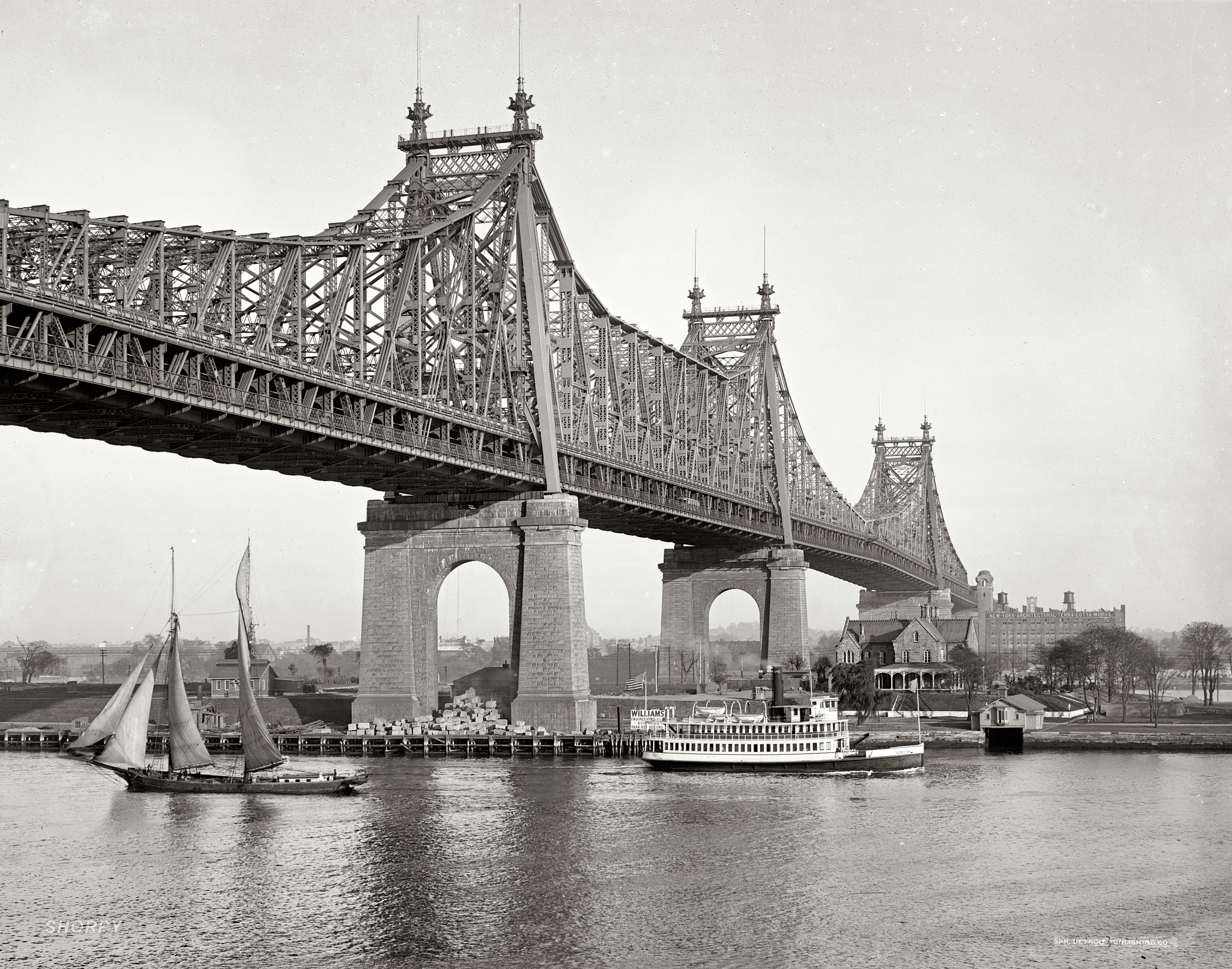 Blackwell's Island Bridge (i.e. the Queensboro Bridge), East River, c. 1910. 8x10 glass negative.